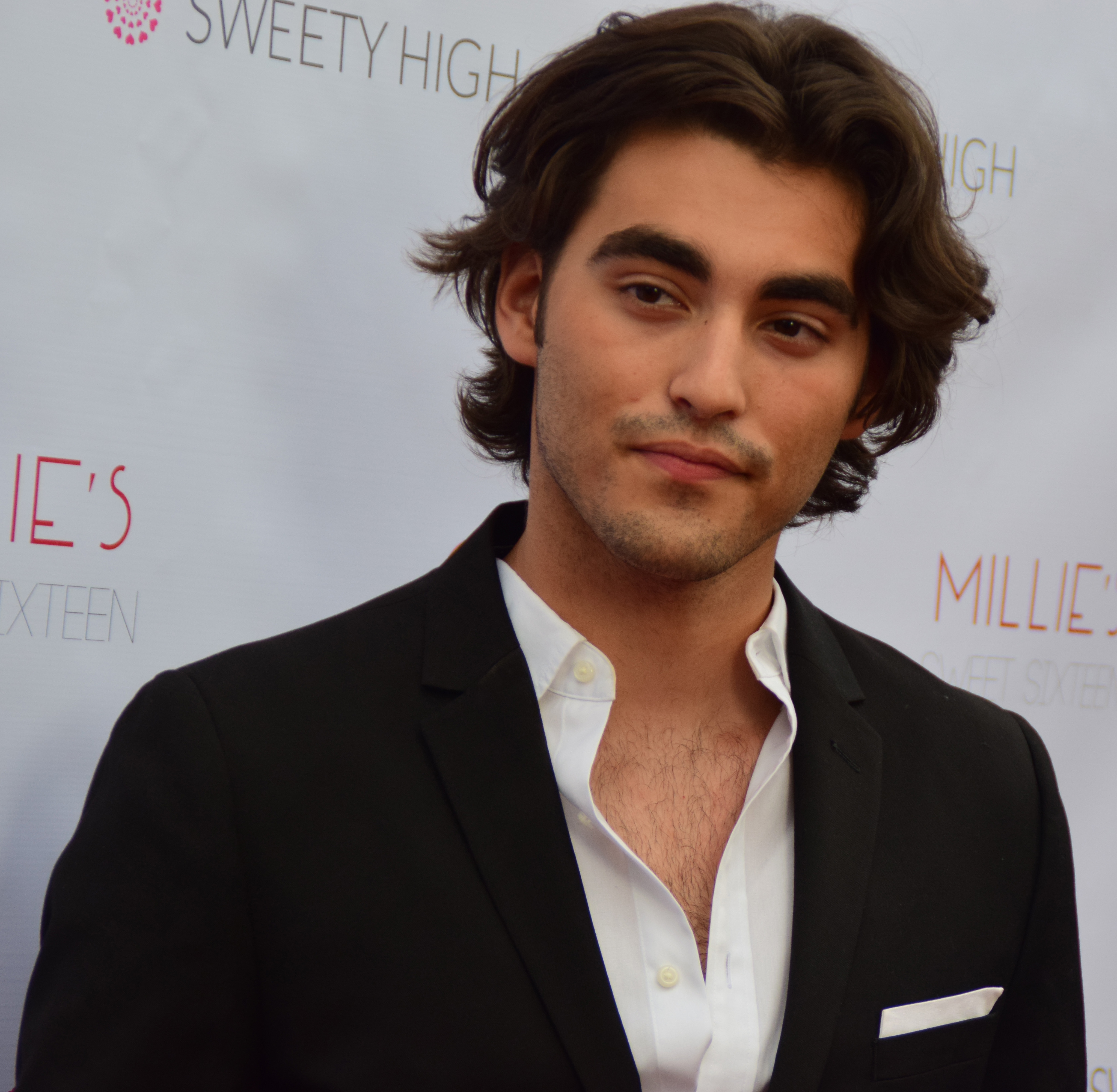 Mingle Media TV and our Red Carpet Report team with host, Denise Salcedo, were invited to come out to Sweet Suspense member Millie Thrasher's Sweet 16 Party with Radio Disney and her celebrity friends at the Hotel Sofitel in Hollywood.